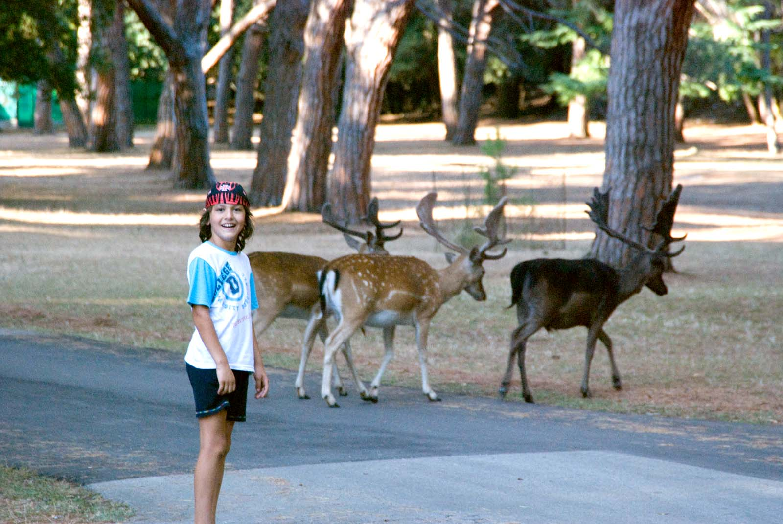 Deers walk near tourist on Brioni, Croatia